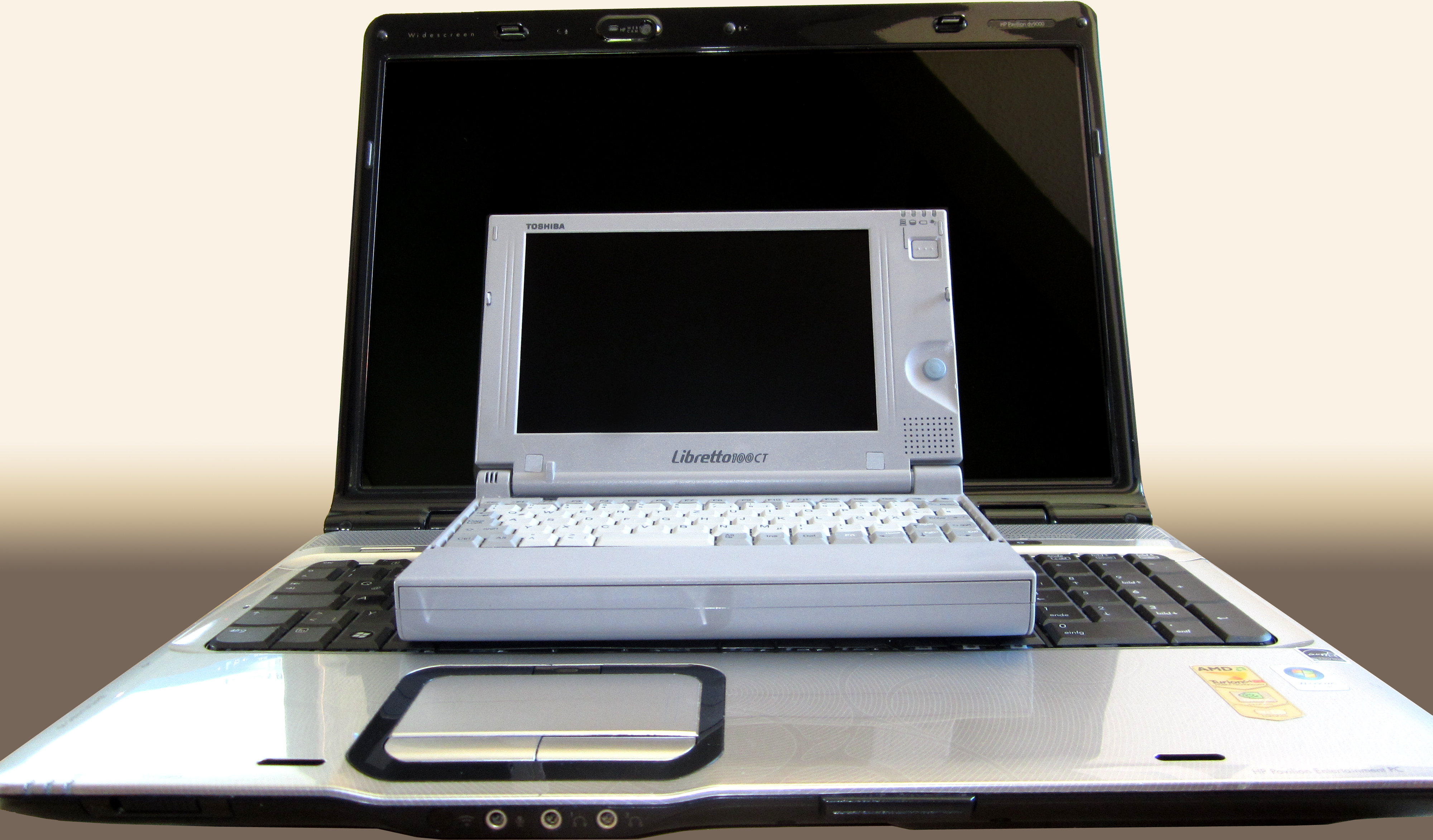 A Toshiba Libretto 100CT in front of a HP Pavilion DV9769eg.